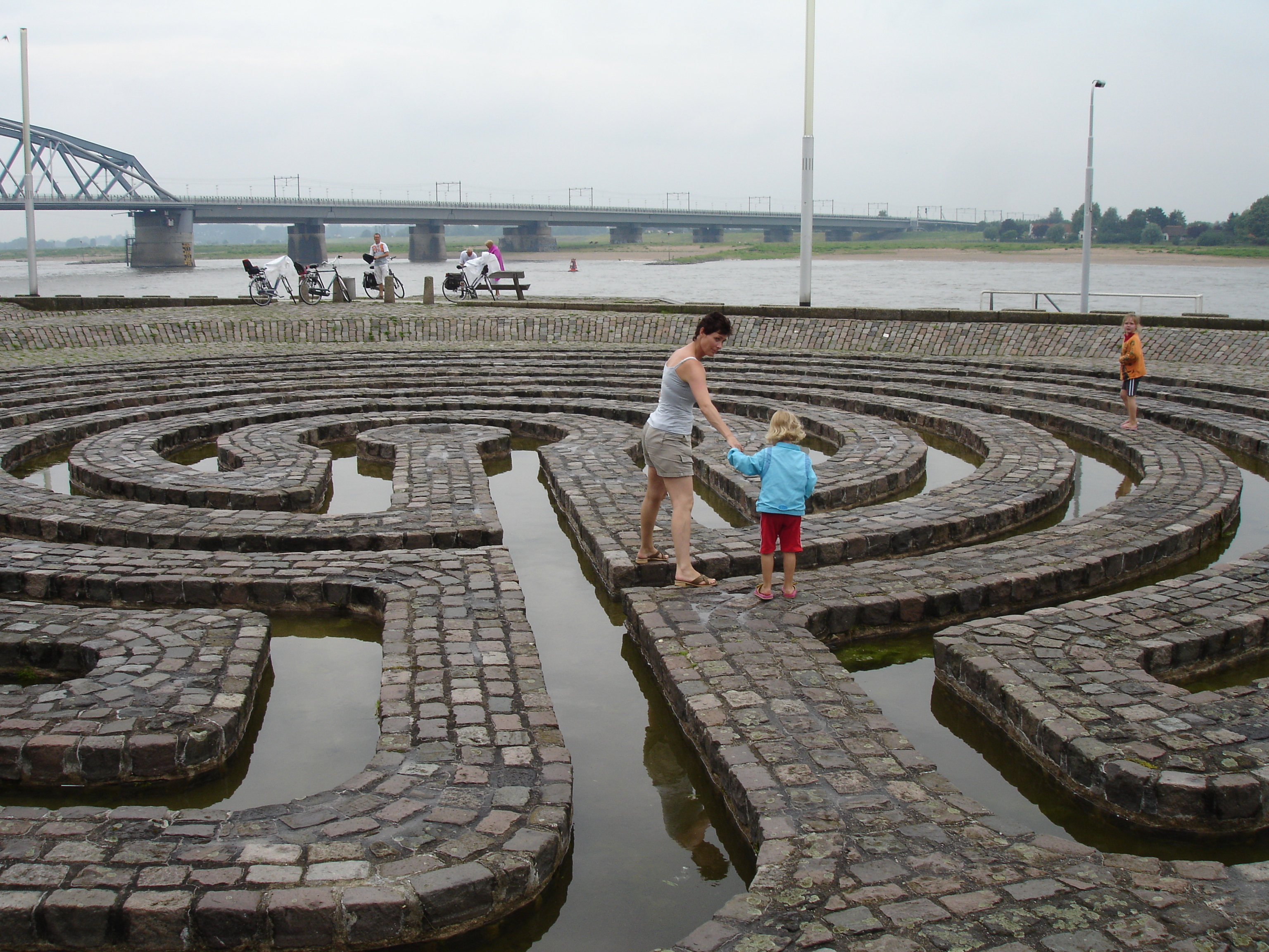 Labyrinth